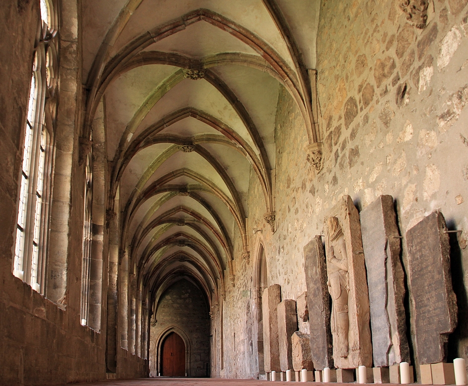 cloister in the Walkenried Abbey, once one of the most celebrated Cistercian abbeys of Germany, located in the village of Walkenried in the district of Osterode in Lower Saxony.